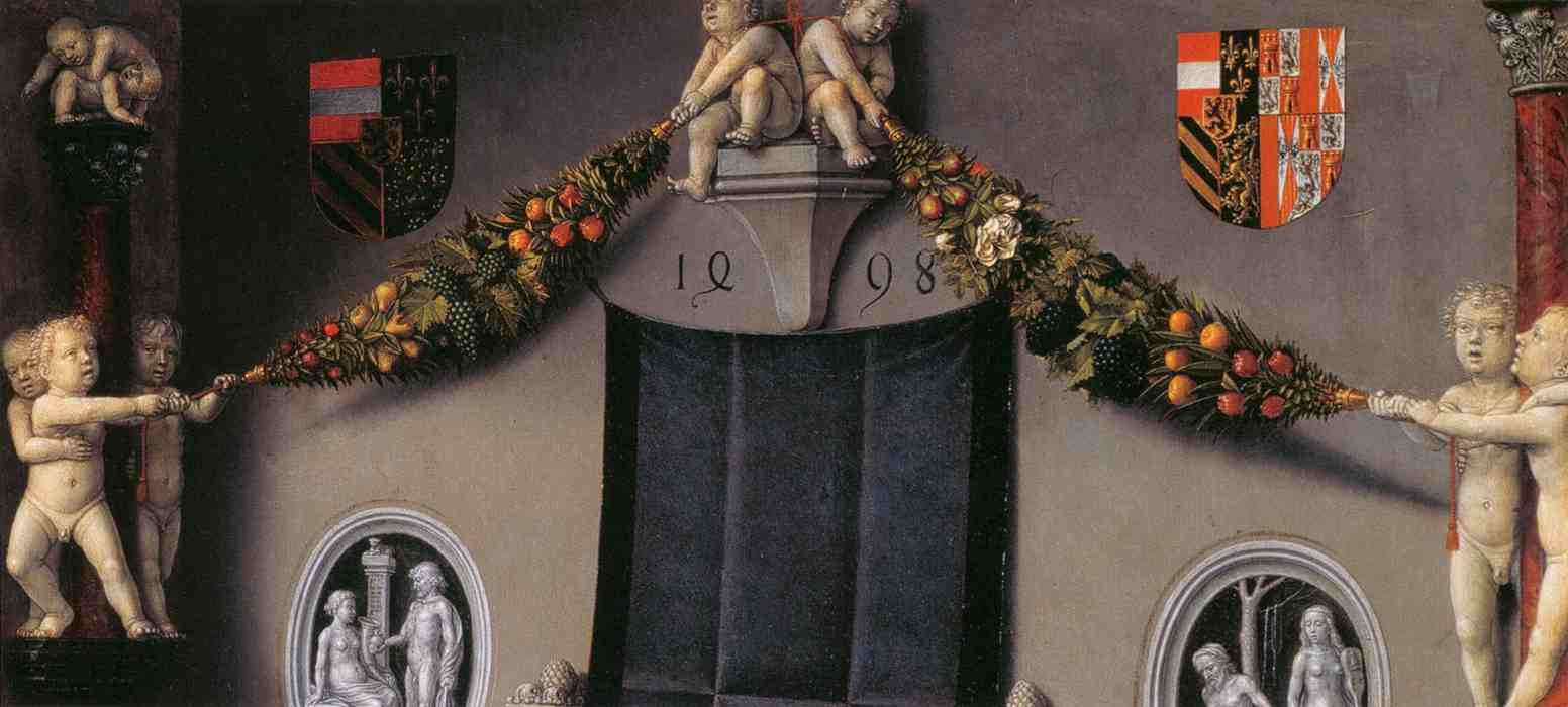 The Judgment of Cambyses (Detail) Oil on wood, 202 x 349,5 cm Groeninge Museum, Bruges